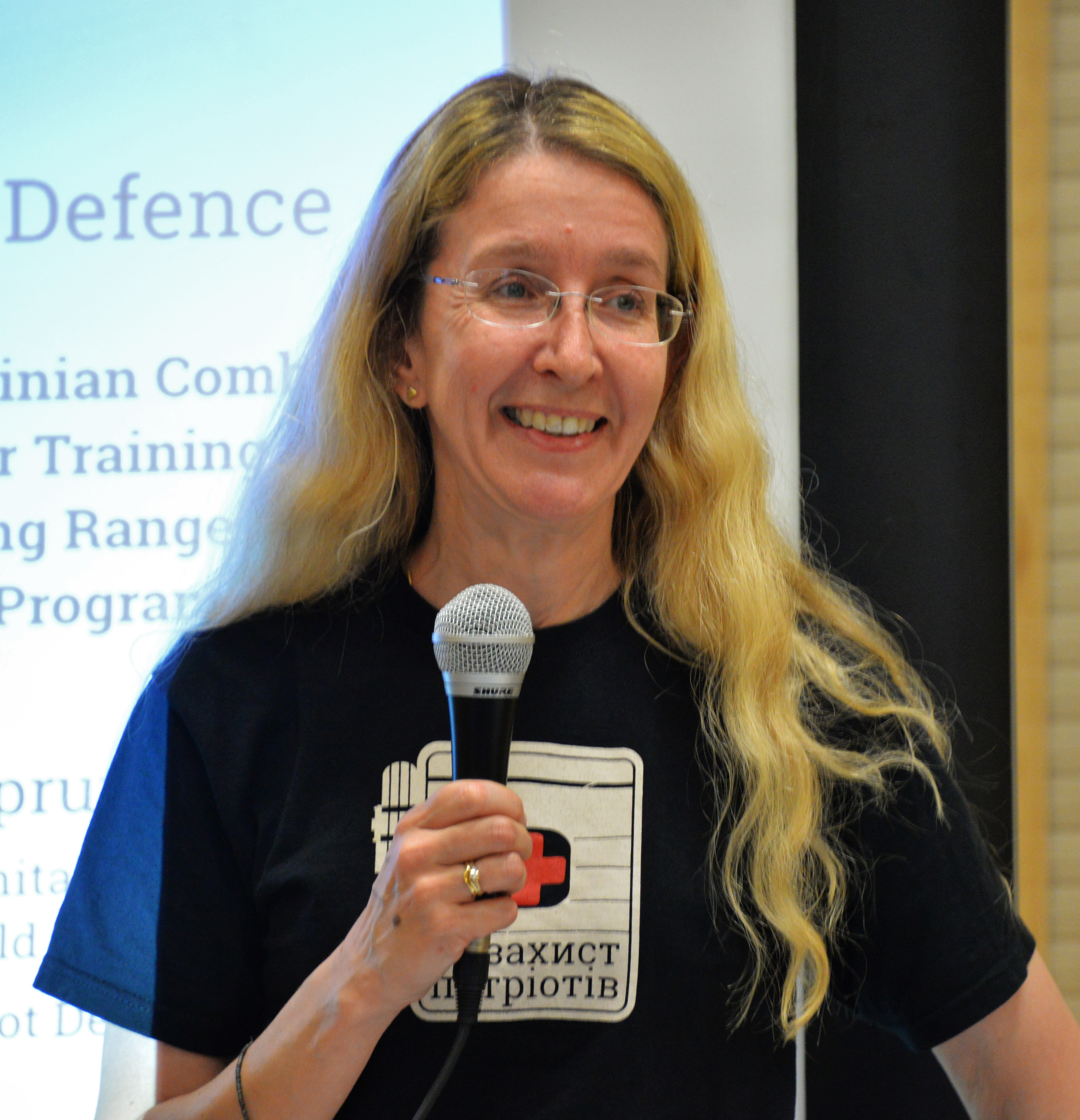 Ukrainian volunteer - physician from the US Uliana Suprun while presenting the work of the organization Patriot Defence on the meeting of the Ukrainian Canadian Congress in Toronto on May 28, 2015